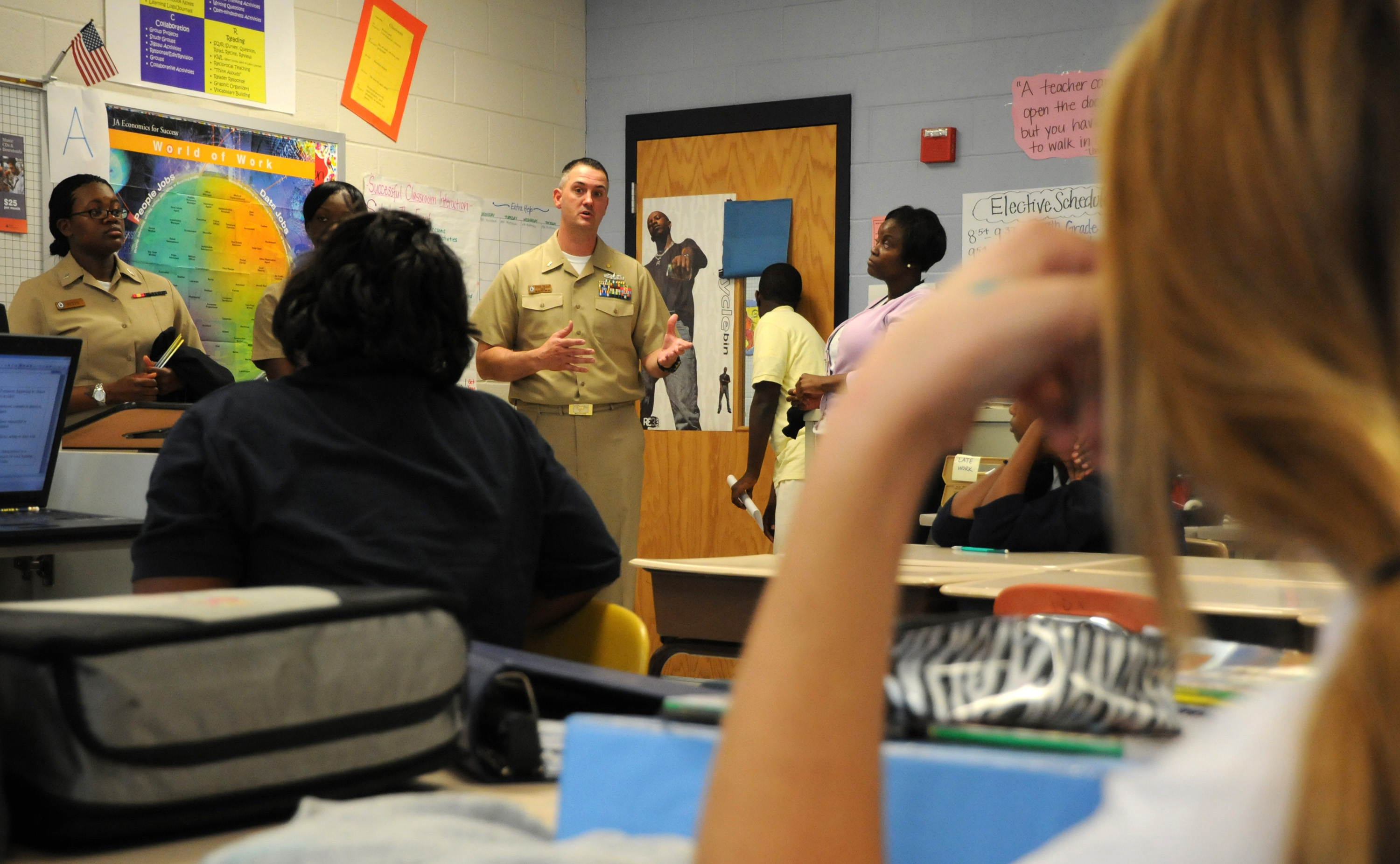 WILMINGTON, N.C. (Nov. 15, 2010) Chief Warrant Officer Todd Treat, assigned to the guided-missile destroyer Pre-Commissioning Unit (PCU) Gravely (DDG 107), talks with Williston Middle School students about life in the Navy. Gravely is in Wilmington for the ship's commissioning ceremony Nov. 20. (U.S. Navy photo by Mass Communication Specialist 2nd Class Eric Tretter/Released)